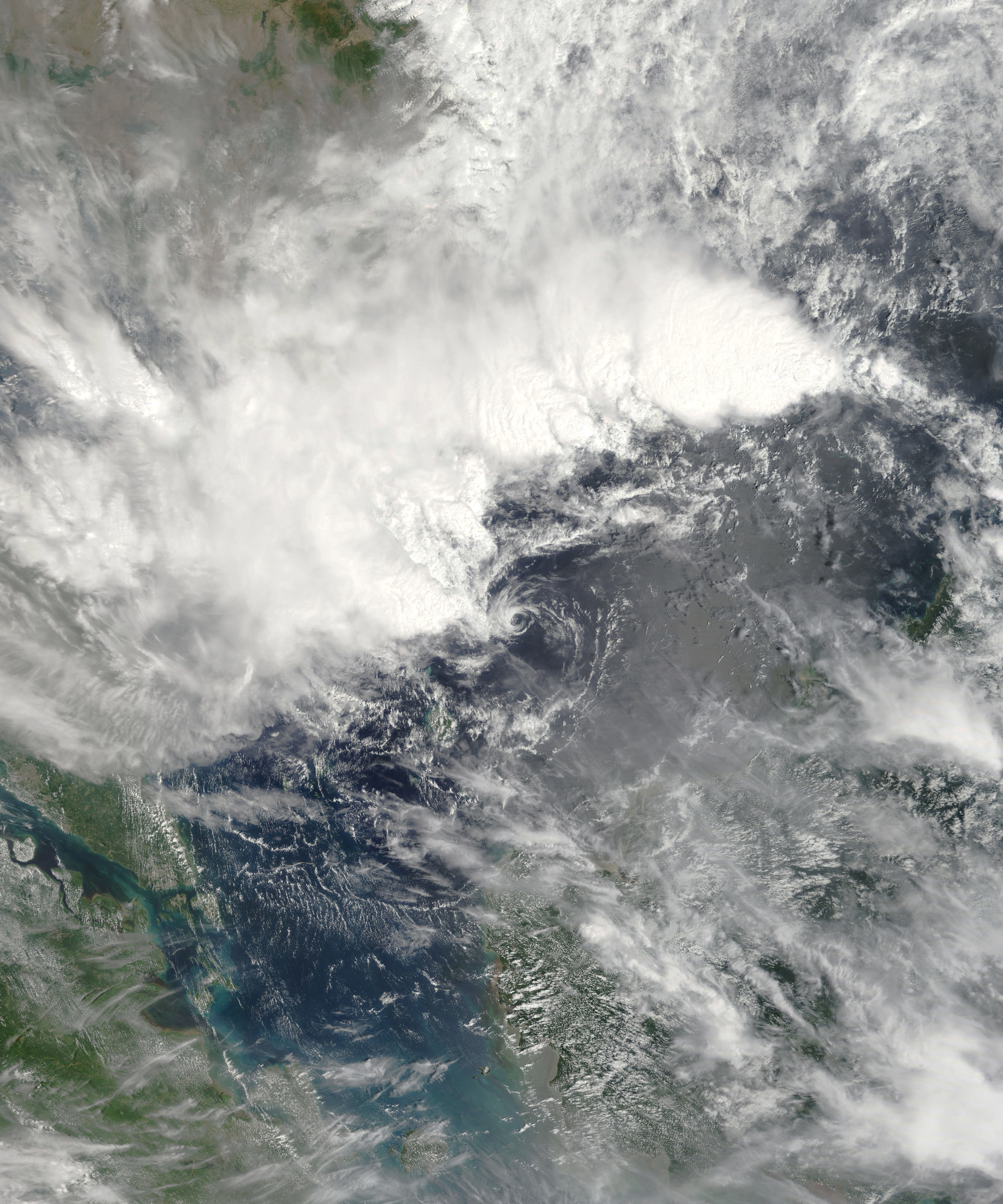 Tropical Storm Shanshan in the South China Sea on February 22, 2013.